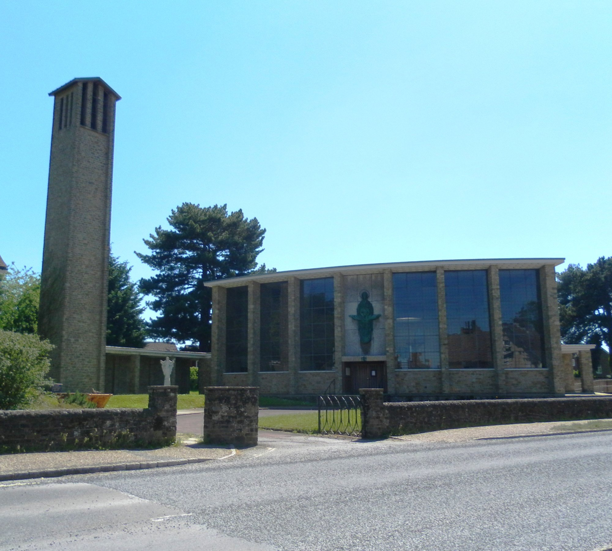 Church of the Divine Motherhood and St Francis of Assisi, Midhurst, District of Chichester, West Sussex, England. The Roman Catholic parish church of Midhurst. Listed at Grade II by English Heritage (NHLE Code 1403875)